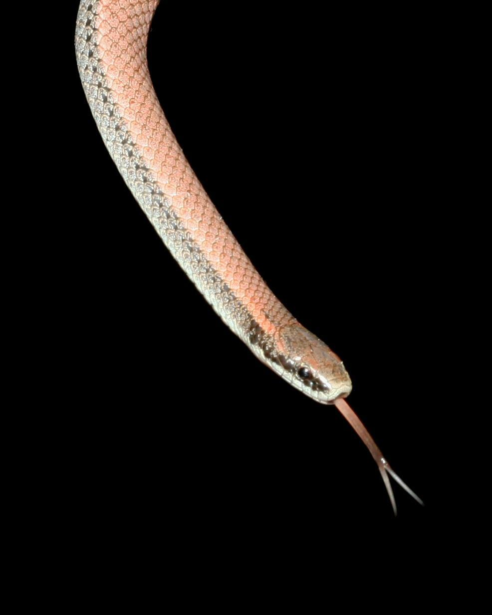 Sharp-tailed Snake (Contia tenuis)